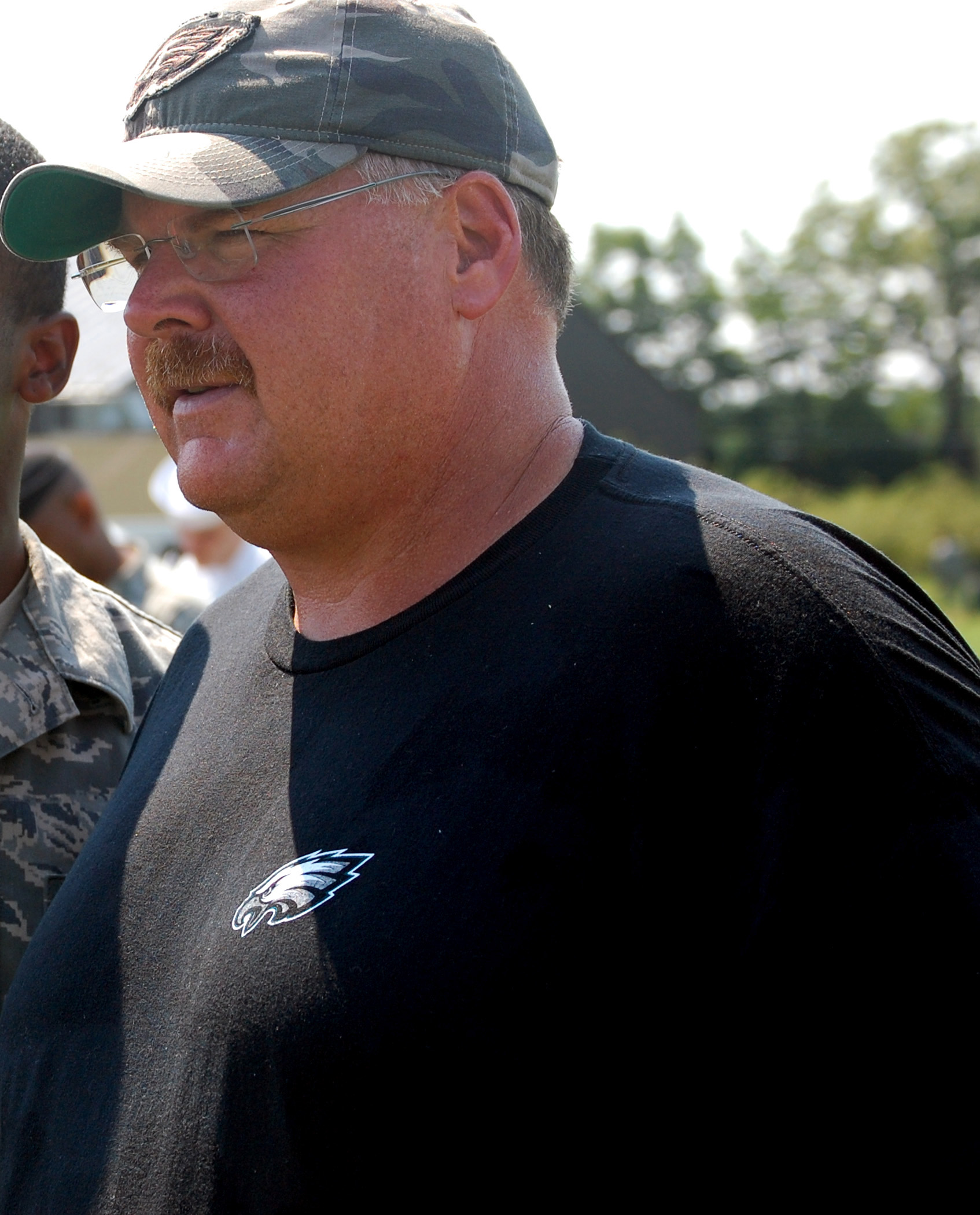 Andy Reid, right, the head coach for the Philadelphia Eagles professional football team, poses for a photograph with U.S. Air Force Airman 1st Class Calyburn, assigned at McGuire Air Force Base, N.J., during Military Day at the Eagles training camp at Lehigh University in Lehigh, Penn., Aug. 5, 2008. More than 200 military members from all the services, including more than 50 Airmen from McGuire Air Force Base and Fort Dix, both located in New Jersey, attended the event where they were served breakfast and met Eagles staff members and players.